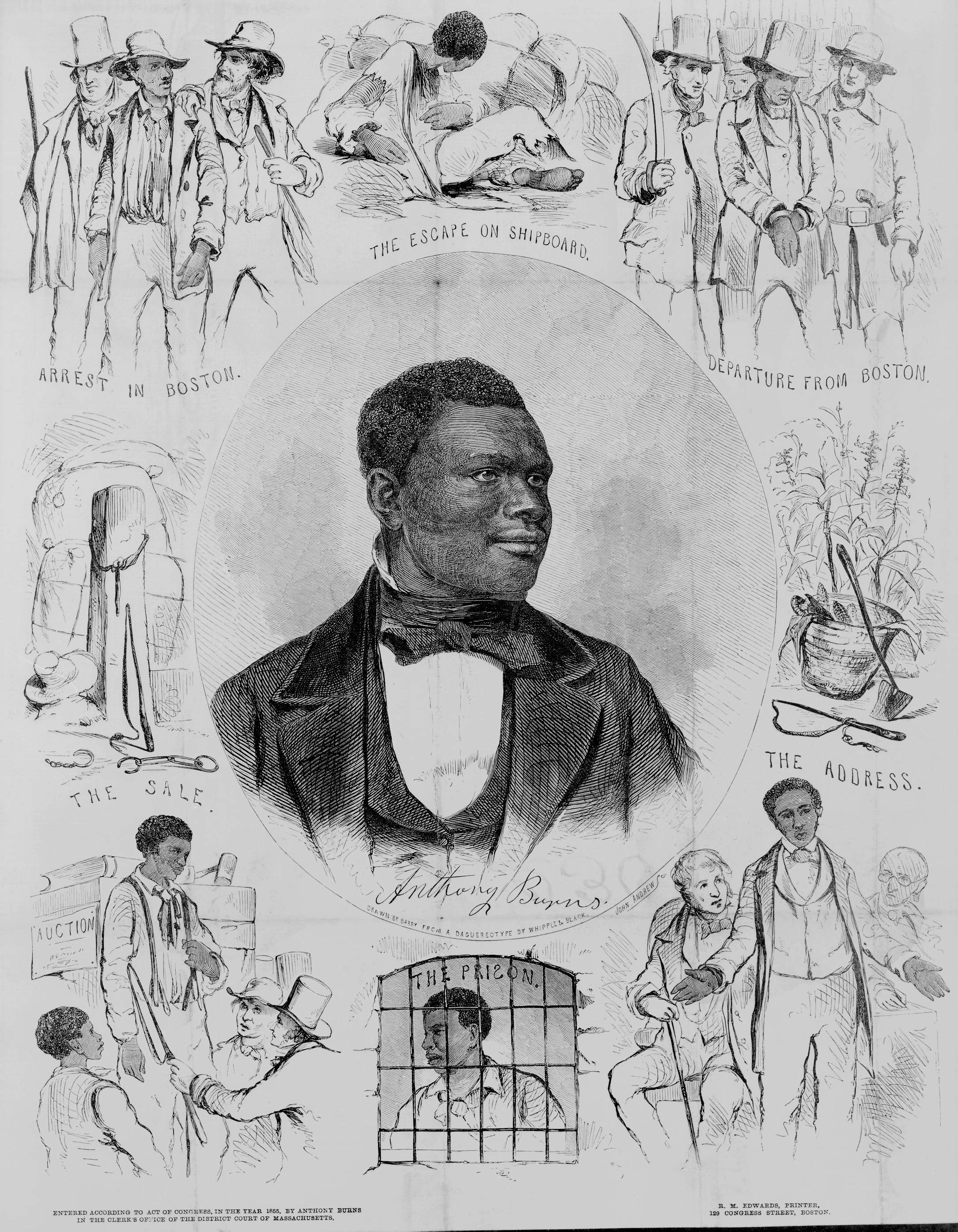 A portrait of the fugitive slave Anthony Burns, whose arrest and trial under the Fugitive Slave Act of 1850 touched off riots and protests by abolitionists and citizens of Boston in the spring of 1854. A bust portrait of the twenty-four-year-old Burns, "Drawn by Barry from a daguereotype [sic] by Whipple and Black," is surrounded by scenes from his life. These include (clockwise from lower left): the sale of the youthful Burns at auction, a whipping post with bales of cotton, his arrest in Boston on May 24, 1854, his escape from Richmond on shipboard, his departure from Boston escorted by federal marshals and troops, Burns's "address" (to the court?), and finally Burns in prison. Copyrighting works such as prints and pamphlets under the name of the subject (here Anthony Burns) was a common abolitionist practice. This was no doubt the case in this instance, since by 1855 Burns had in fact been returned to his owner in Virginia.